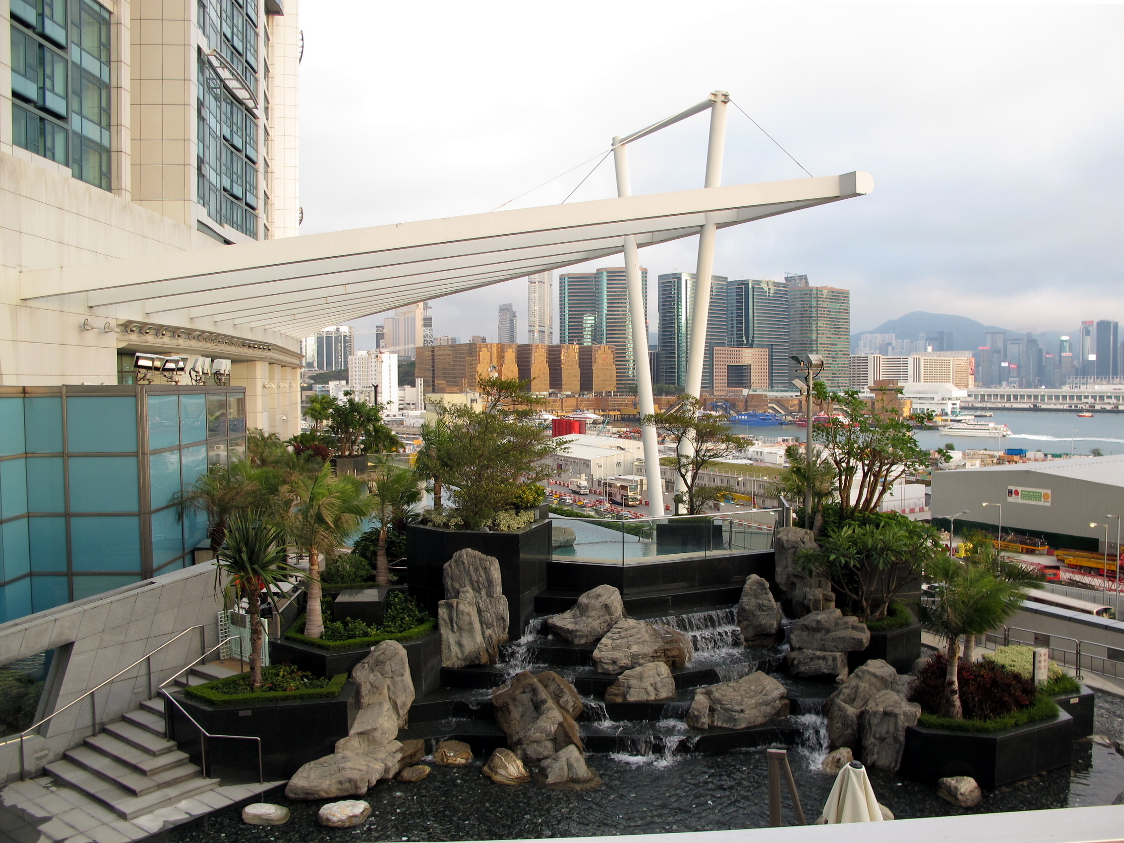 The Harbourside Podium